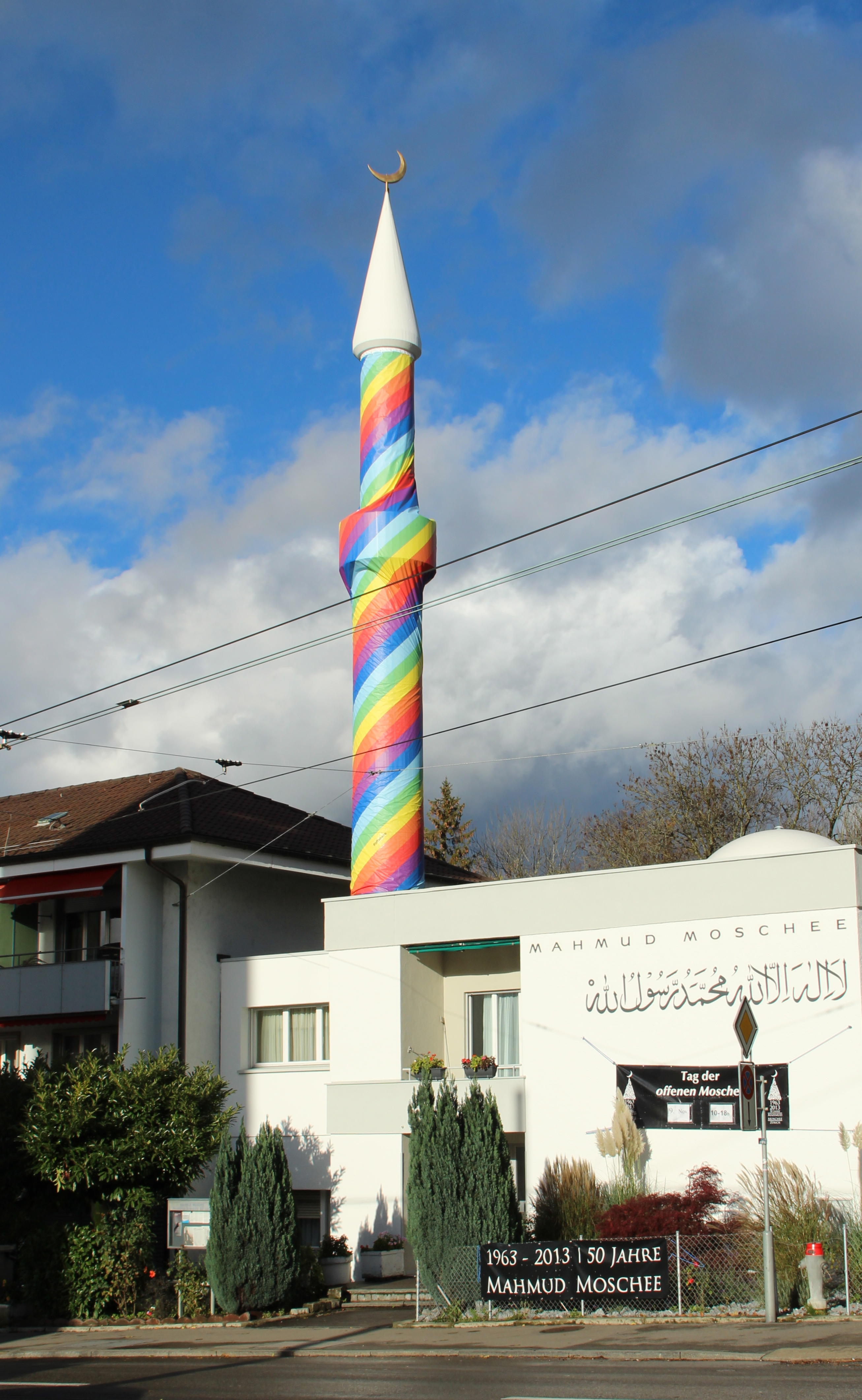 Mahmood Mosque in Zürich